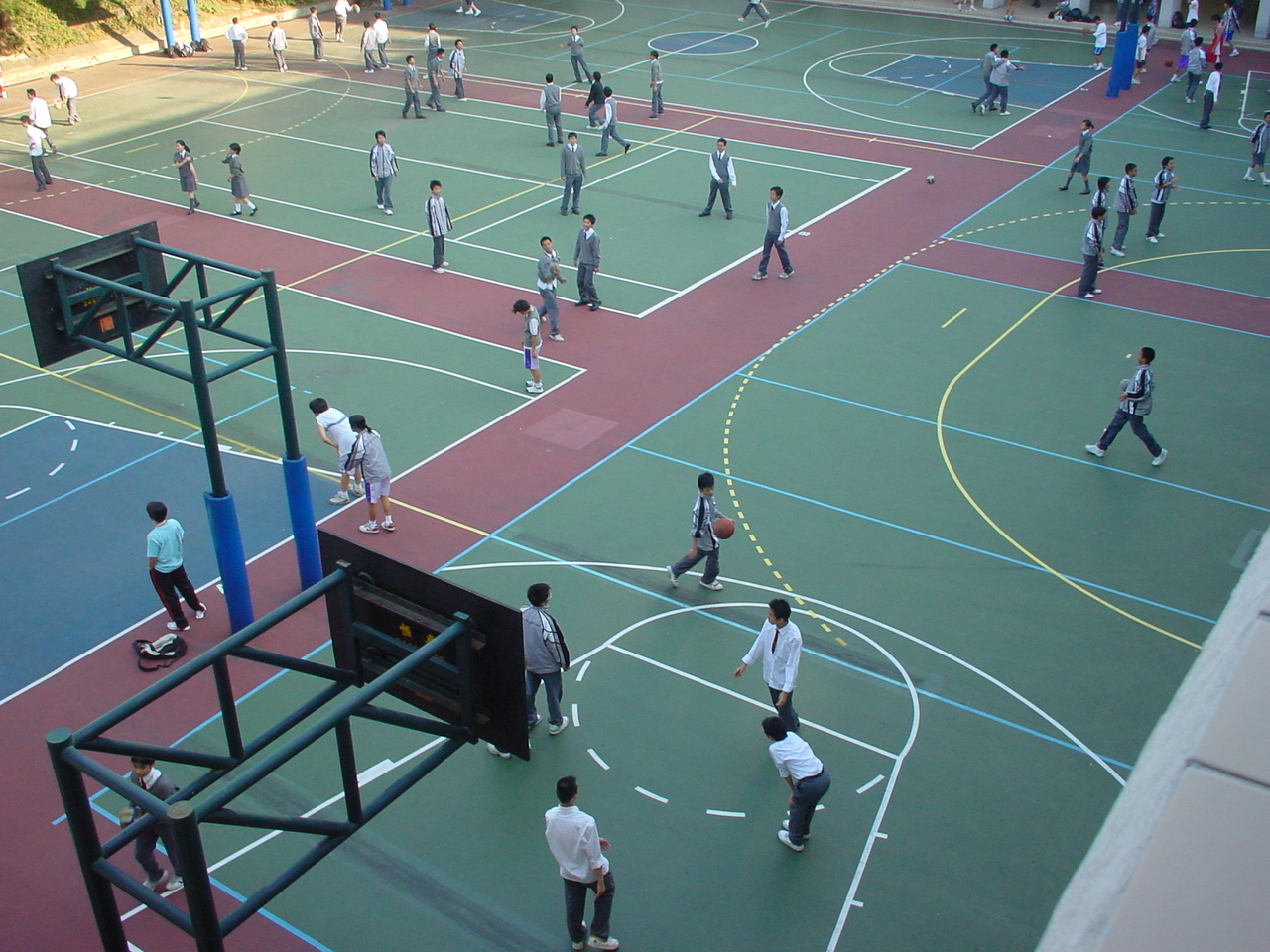 Playground of Queen Elizabeth School at Sai Yee Street, Mong Kok, Kowloon, Hong Kong位於香港九龍旺角洗衣街的伊利沙伯中學的操場